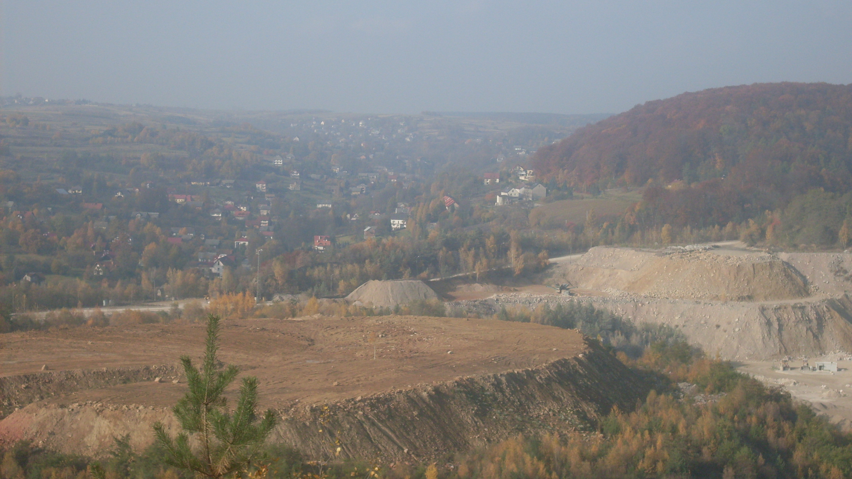 Czerna